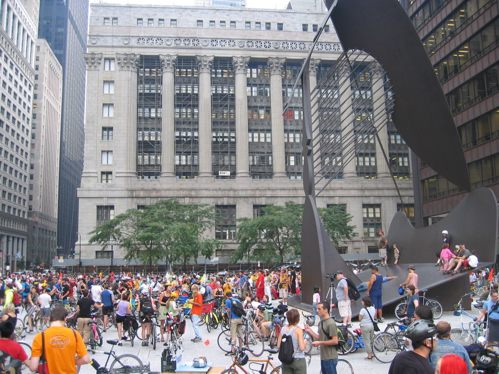 Critical Mass riders meet in Chicago's Daley Plaza.